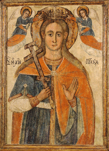 Saint Paraskeva. Halychyna, early 17th C. Wood, gesso, tempera. 25 3/8” x 18 3/8”. The National Kyiv-Pechersk Historical and Cultural Preserve